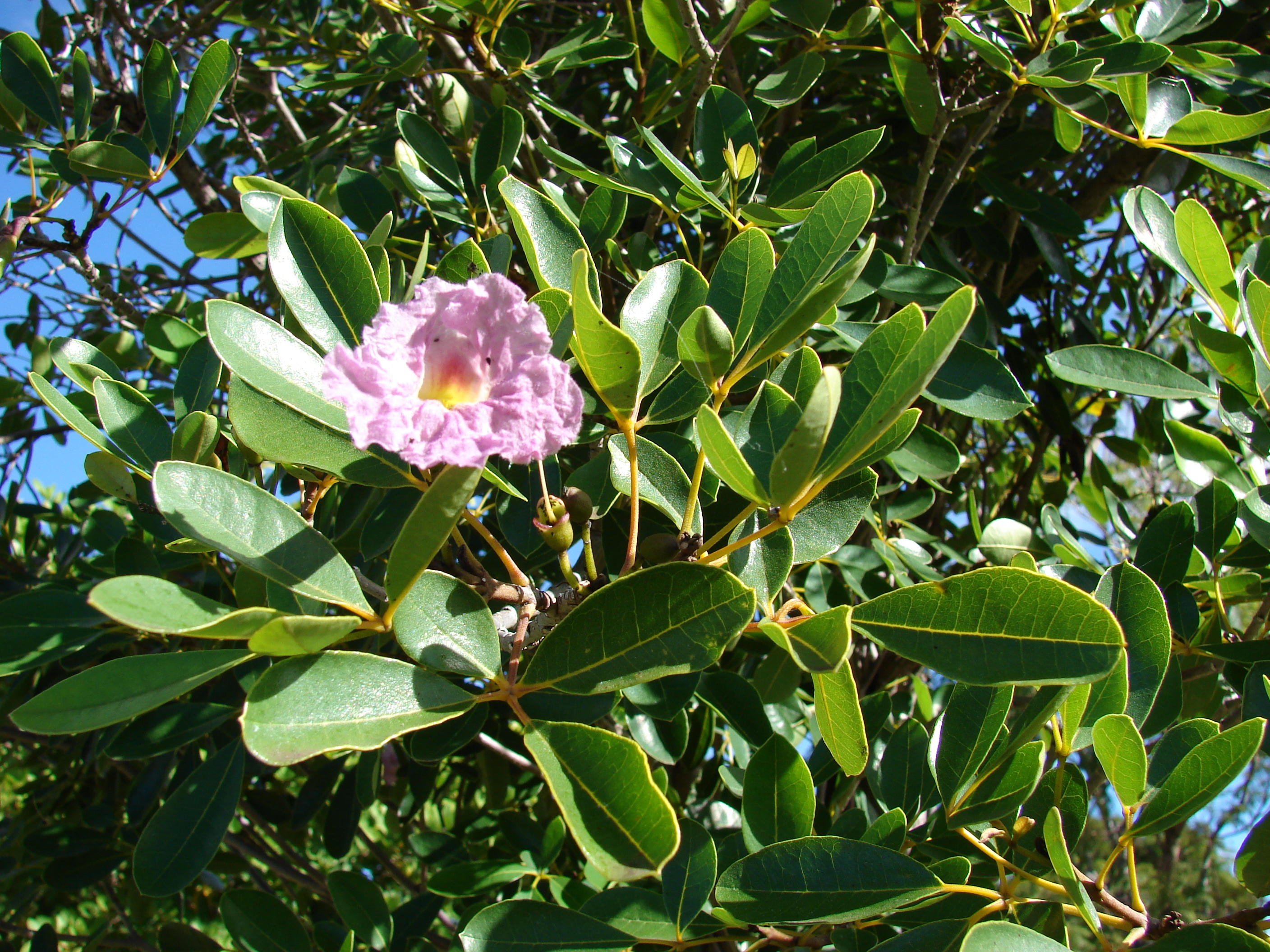 Tabebuia rosea (flowers). Location: Maui, Pukalani Community Center